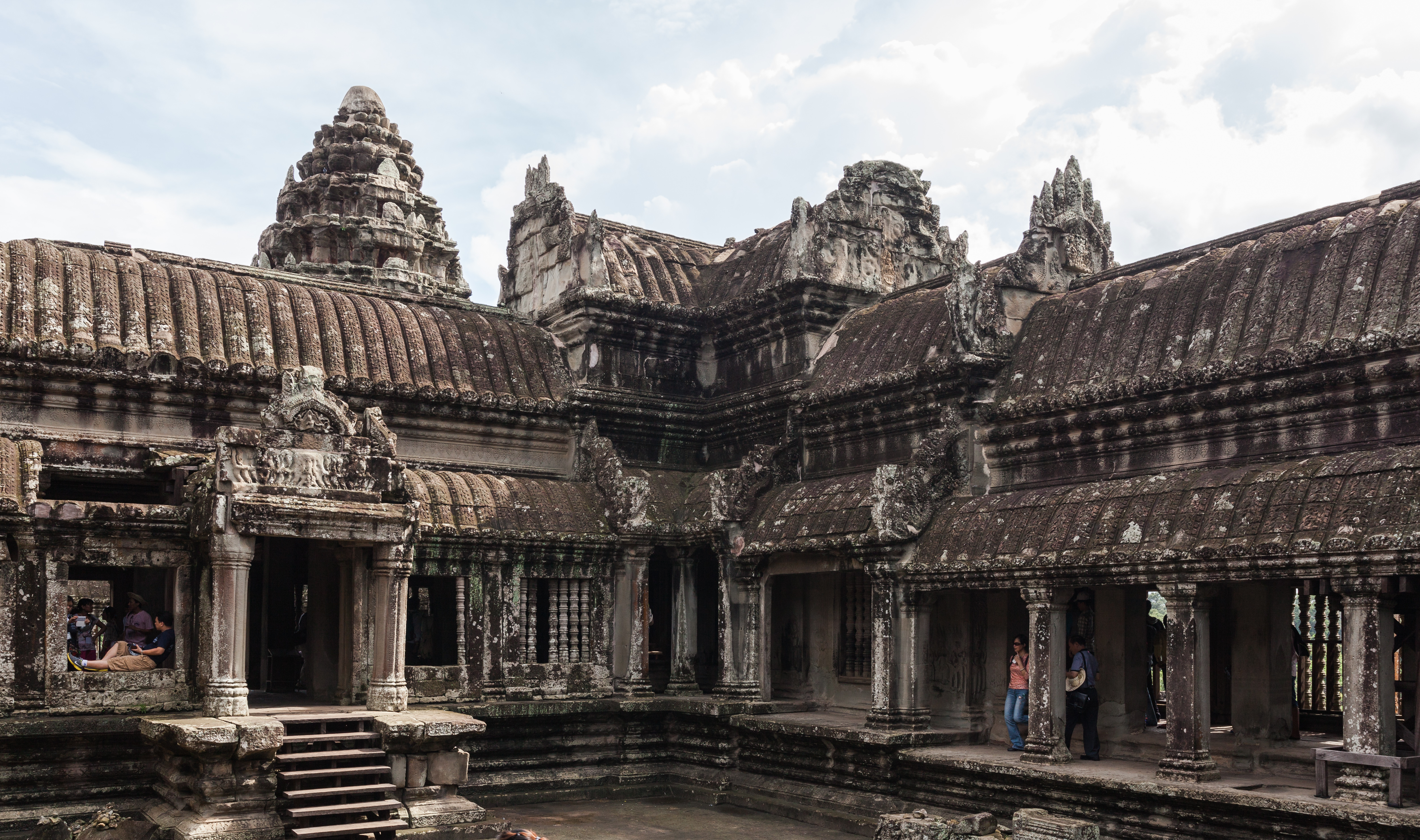 Angkor Wat, Cambodia